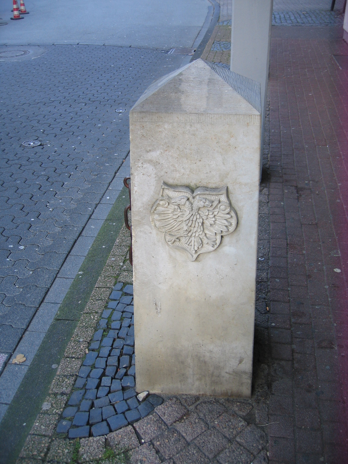 Boundary stone at former boundary between free city of Herford and clerical territory of the cloister in Herford, District of Herford, North Rhine-Westphalia, Germany.